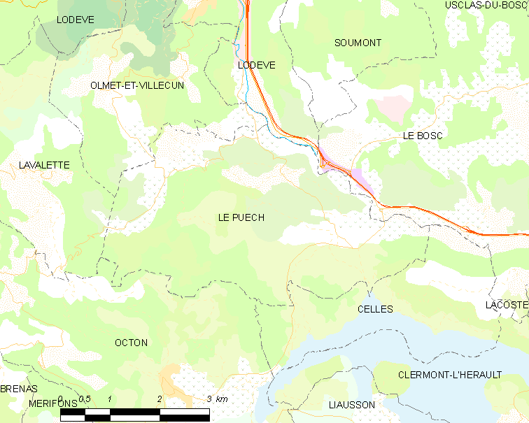 Map commune FR insee code 34220.png - Le Puech